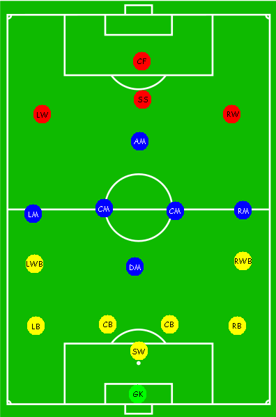 Base image (the pitch) - Image:Boisko.svg by User:MesserWoland Positions added by User:Tiresais